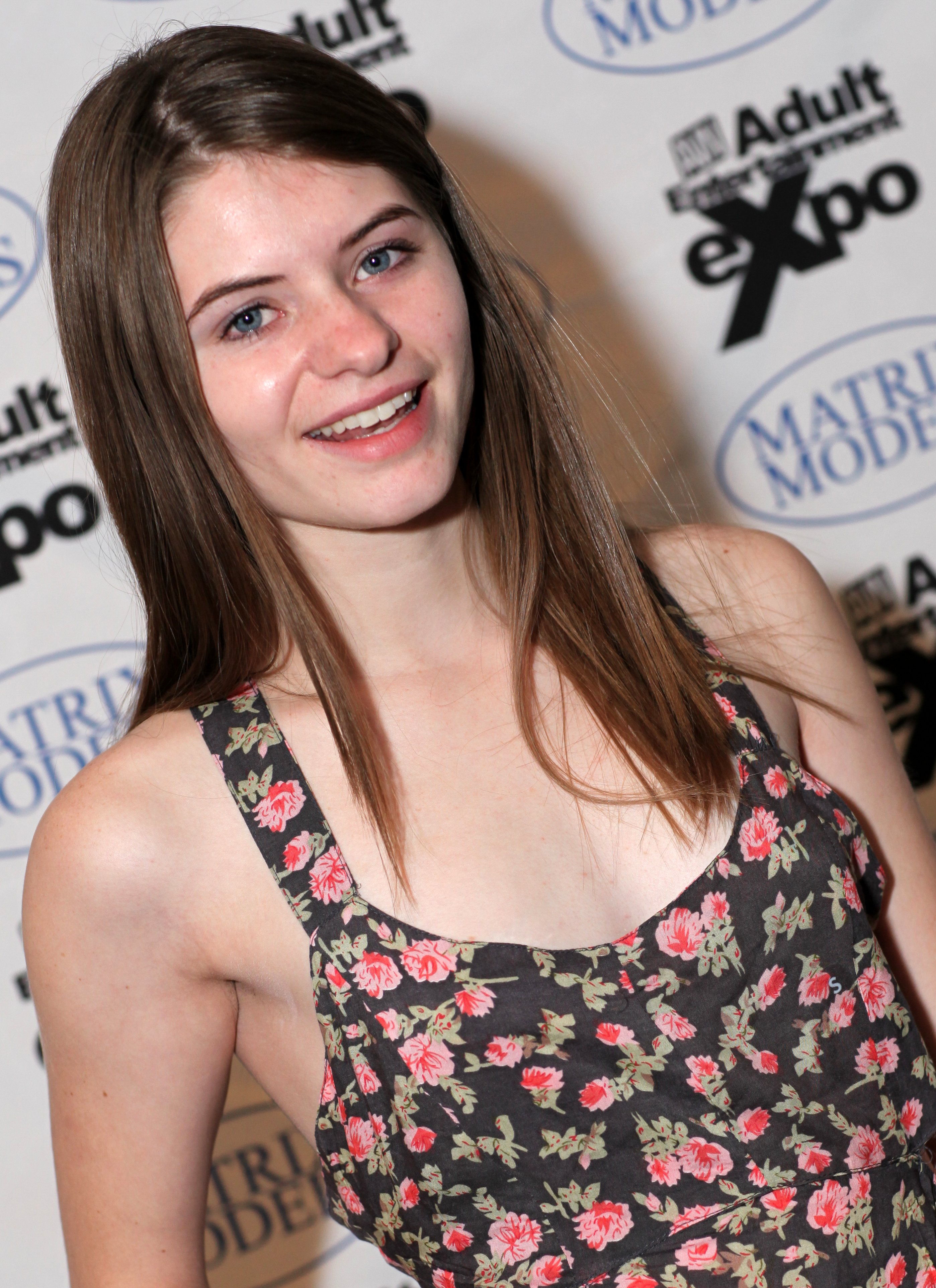 Alice March AVN Adult Entertainment Expo 2013